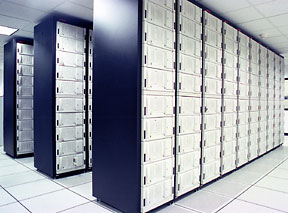 FSL Jet Supercomputer This is NOAA's Forecast Systems Laboratory's JET Supercomputer of 2000. This image taken from a US government site, and therefore public domain.